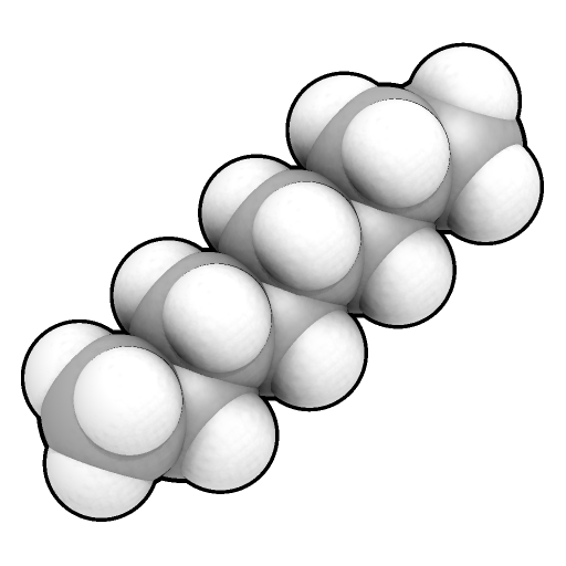 SpaceFill representation of one of the many isomers of octane. Done using the real time open source QuteMol system.